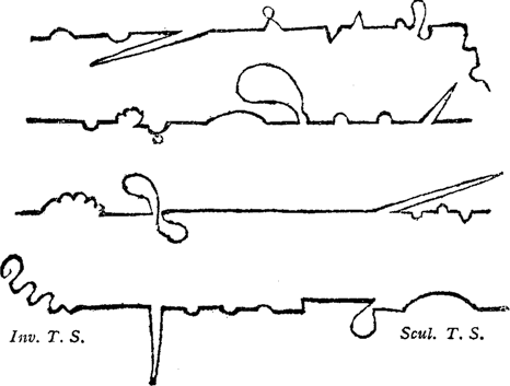 Plot lines drawn by Laurence Sterne from The Life and Opinions of Tristram Shandy. These were from the digitised first edition on Project Gutenberg